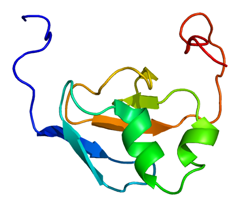 Structure of the TARS protein. Based on PyMOL rendering of PDB 1wwt.